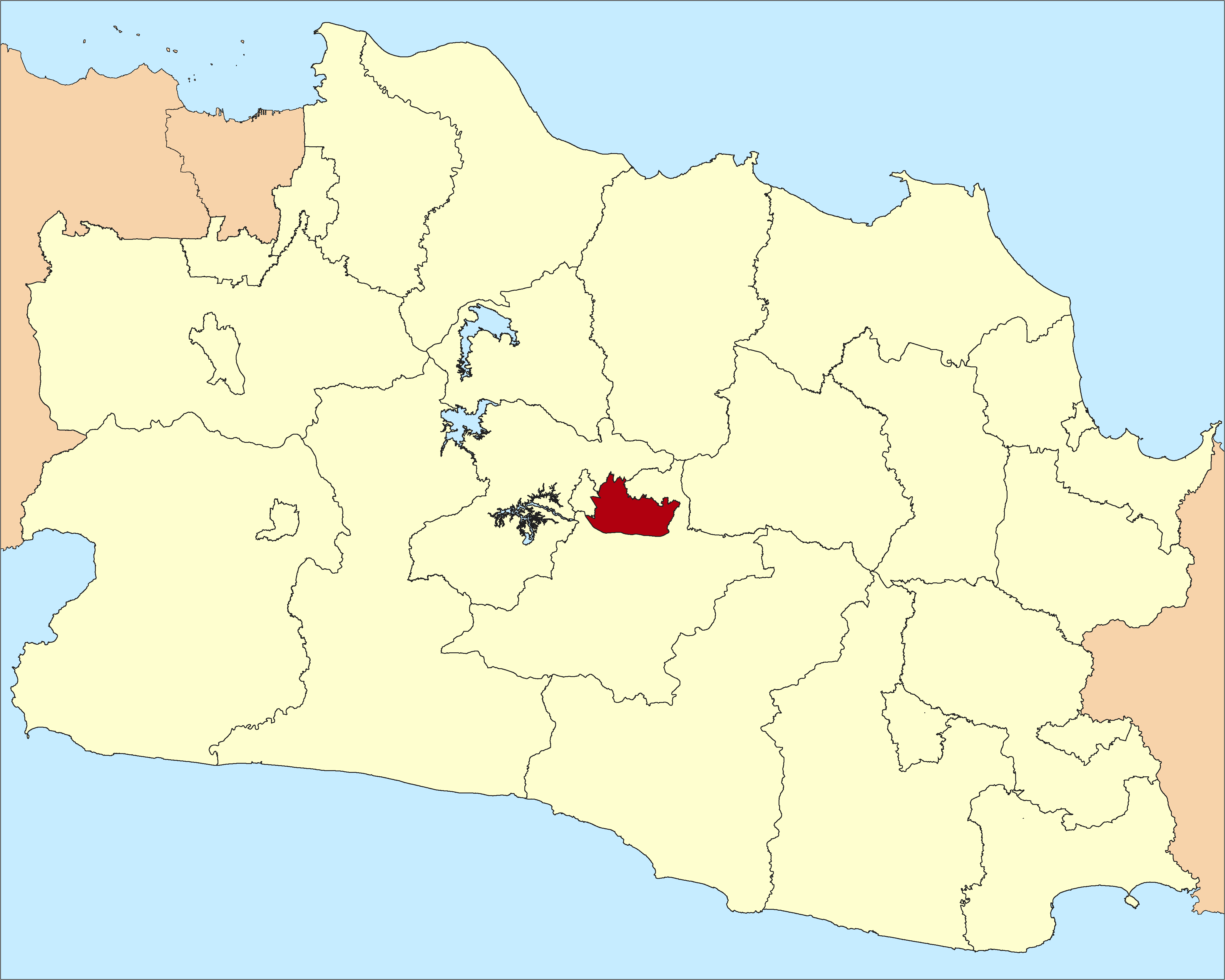 Location of Bandung City in West Java Province.